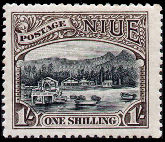 Postage stamp of the Niue, Port d'Aravua, 1 shilling, Yver #31.